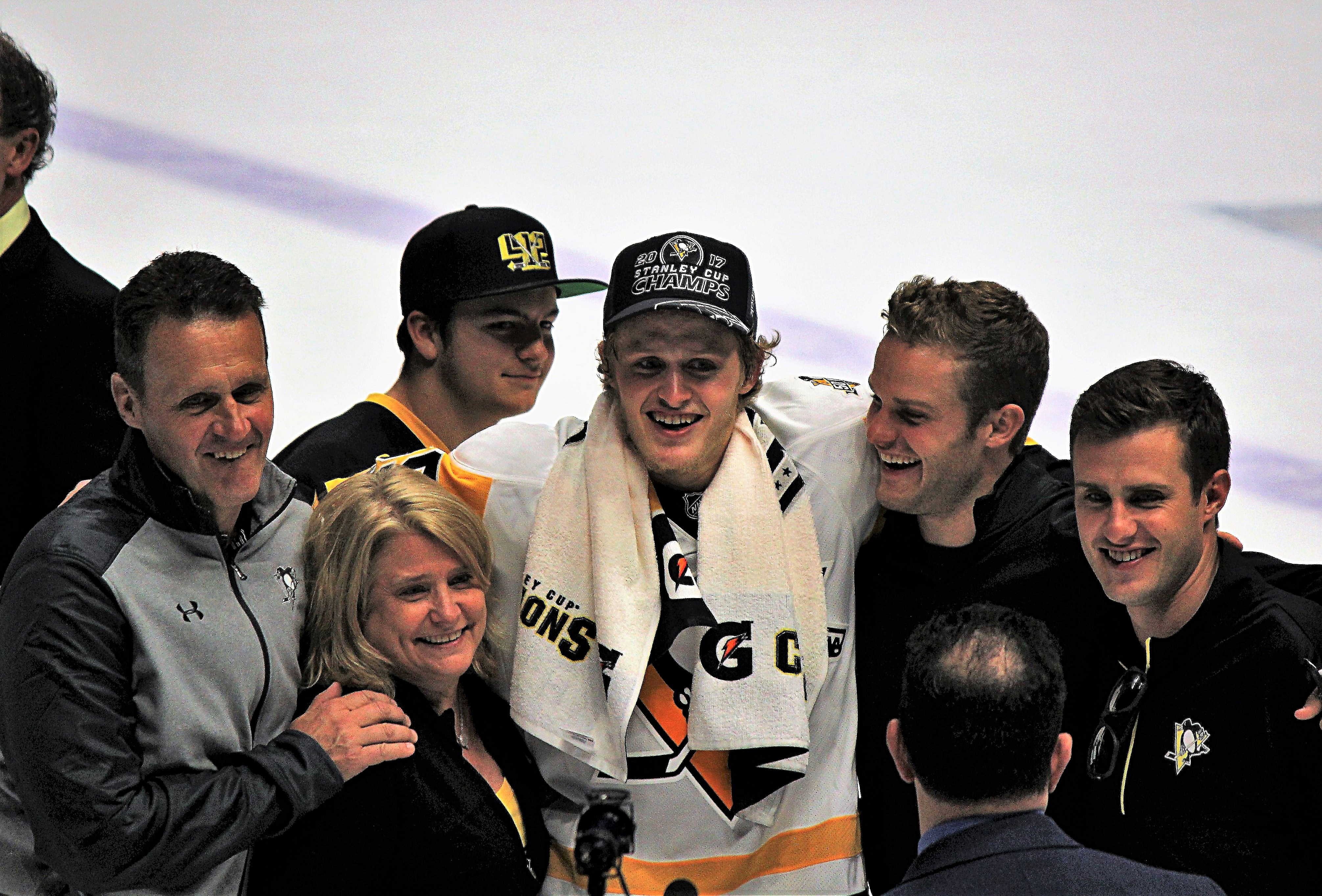 Pittsburgh Penguins forward Jake Guentzel celebrates with his family following the Penguins Stanley Cup clinching win in game 6 over the Nashville Predators, June 11, 2017, at Bridgestone Arena in Nashville, TN.